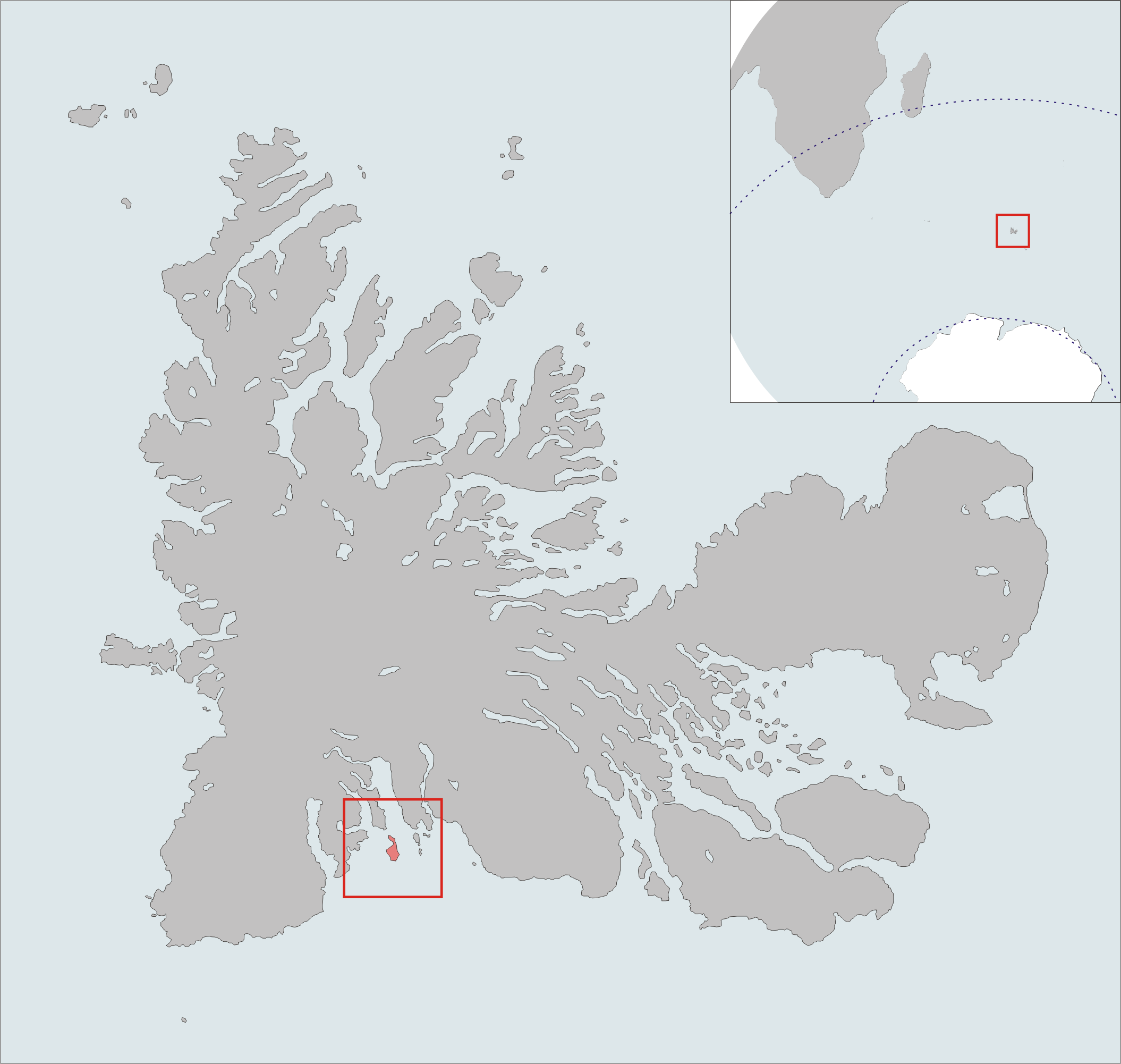 Position of Îles du Prince de Monaco, Kerguelen Islands (French Southern and Antarctic Territories) drawn by varp